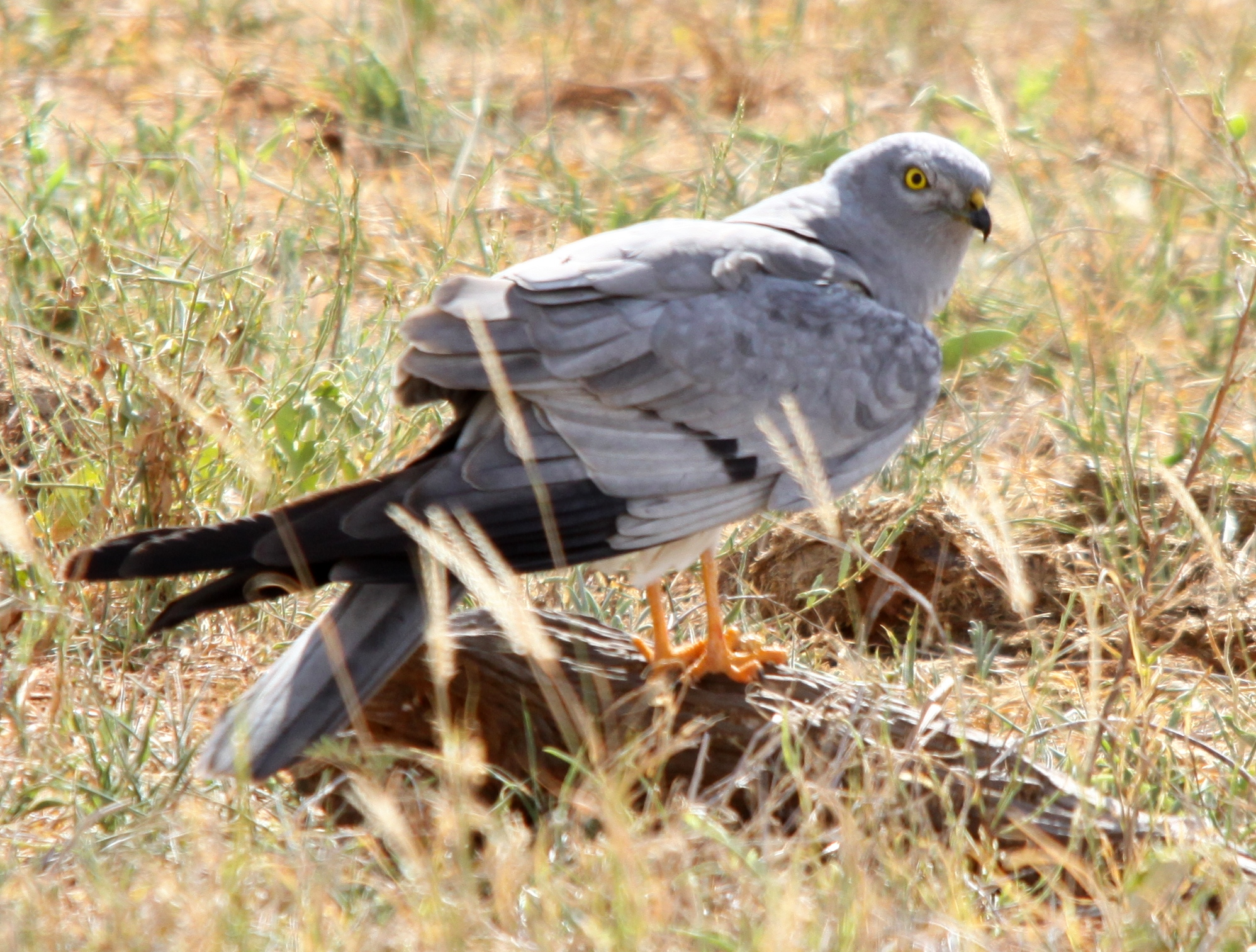 Montagu's Harrier Circus pygargus, Tsavo East National Park, Kenya